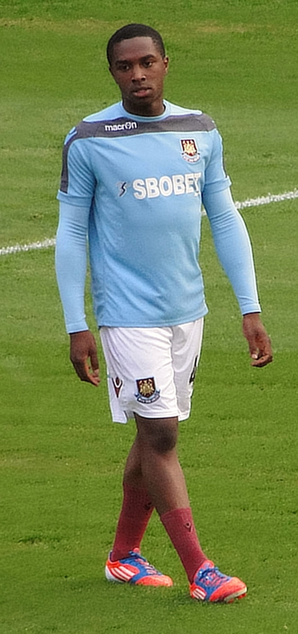 West Ham United football Matthias Fanimo warming-up before his professional debut game against Crewe Alexandra on 28 August 2012 at The Boleyn Ground.